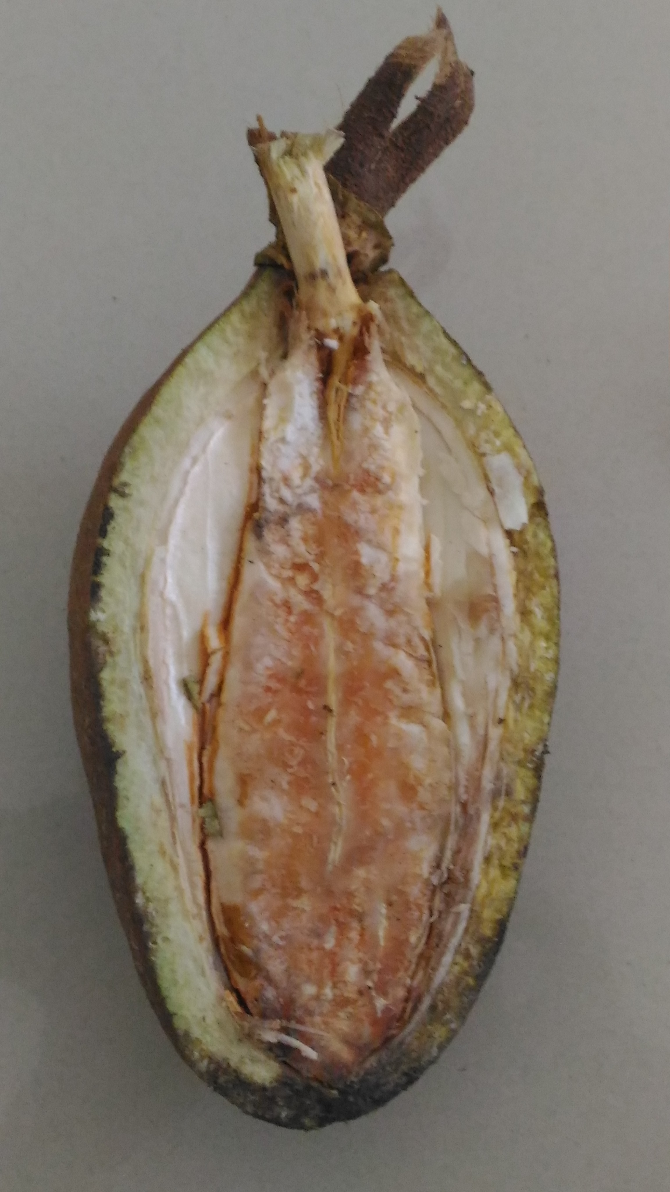 Swietenia macrophylla_LS